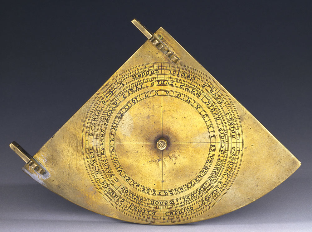 AuthorUnknownDescription